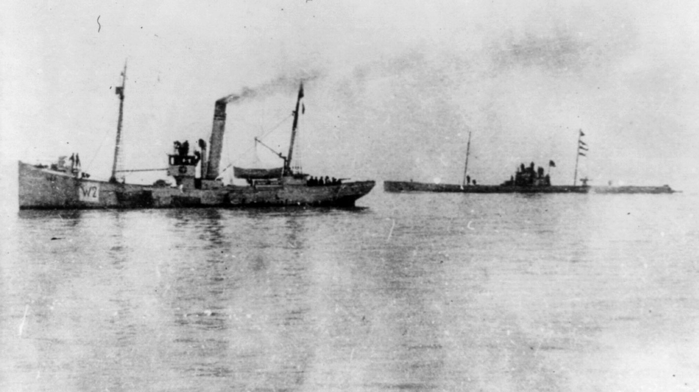 Ship W2 and SM U-28 during the seizure of SS Batavier V on 16 March 1915. The Library of Congress lists this as SM U-36, but contemporary news account identify the submarine that captured Batavier V as U-28.